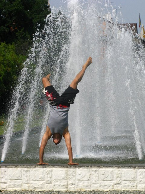 Productions are in Romania